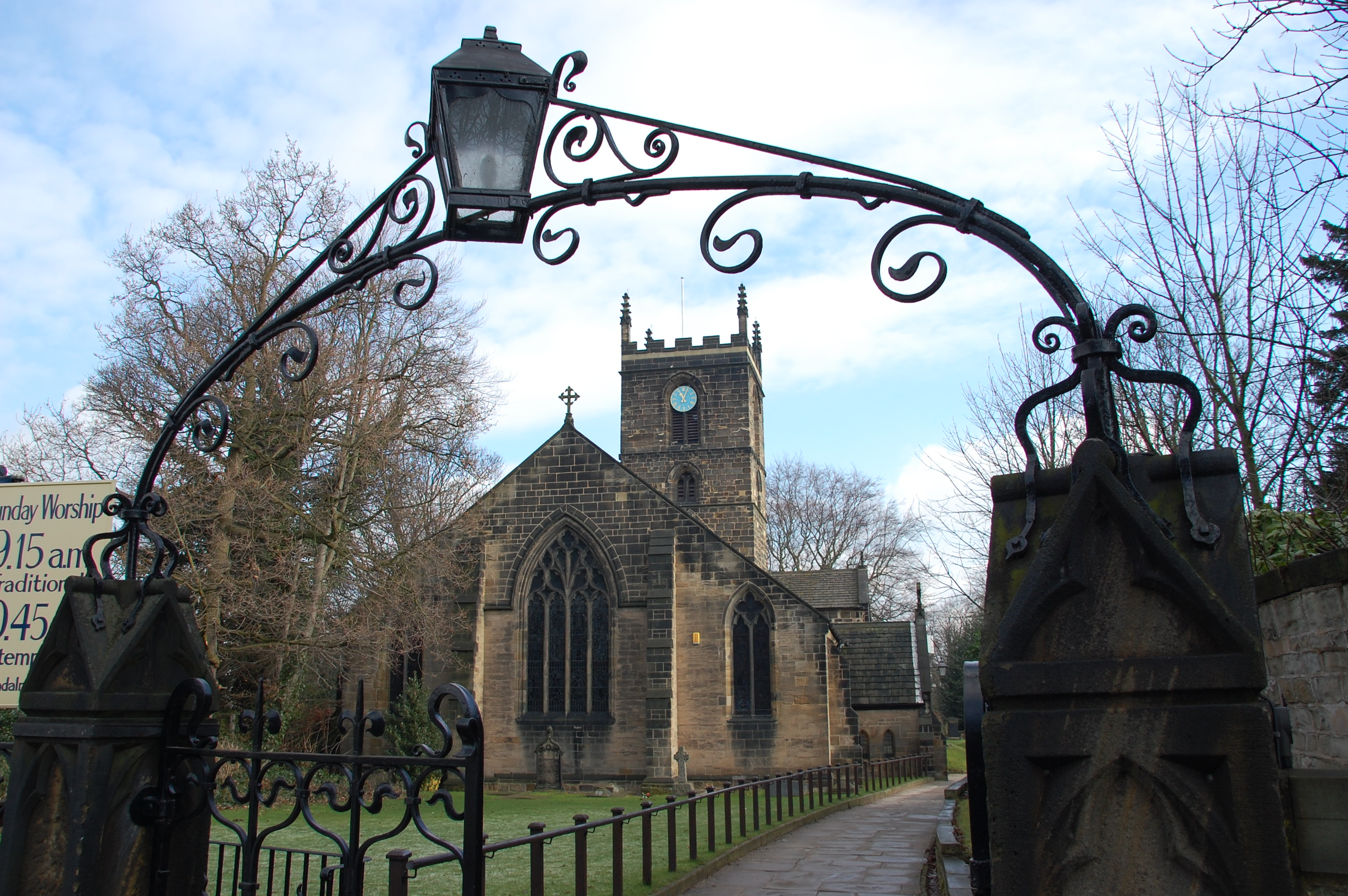 St Helen's Church, Sandal Magna, Wakefield, West Yorkshire, England. A church on this site was recorded in the Domesday Book.